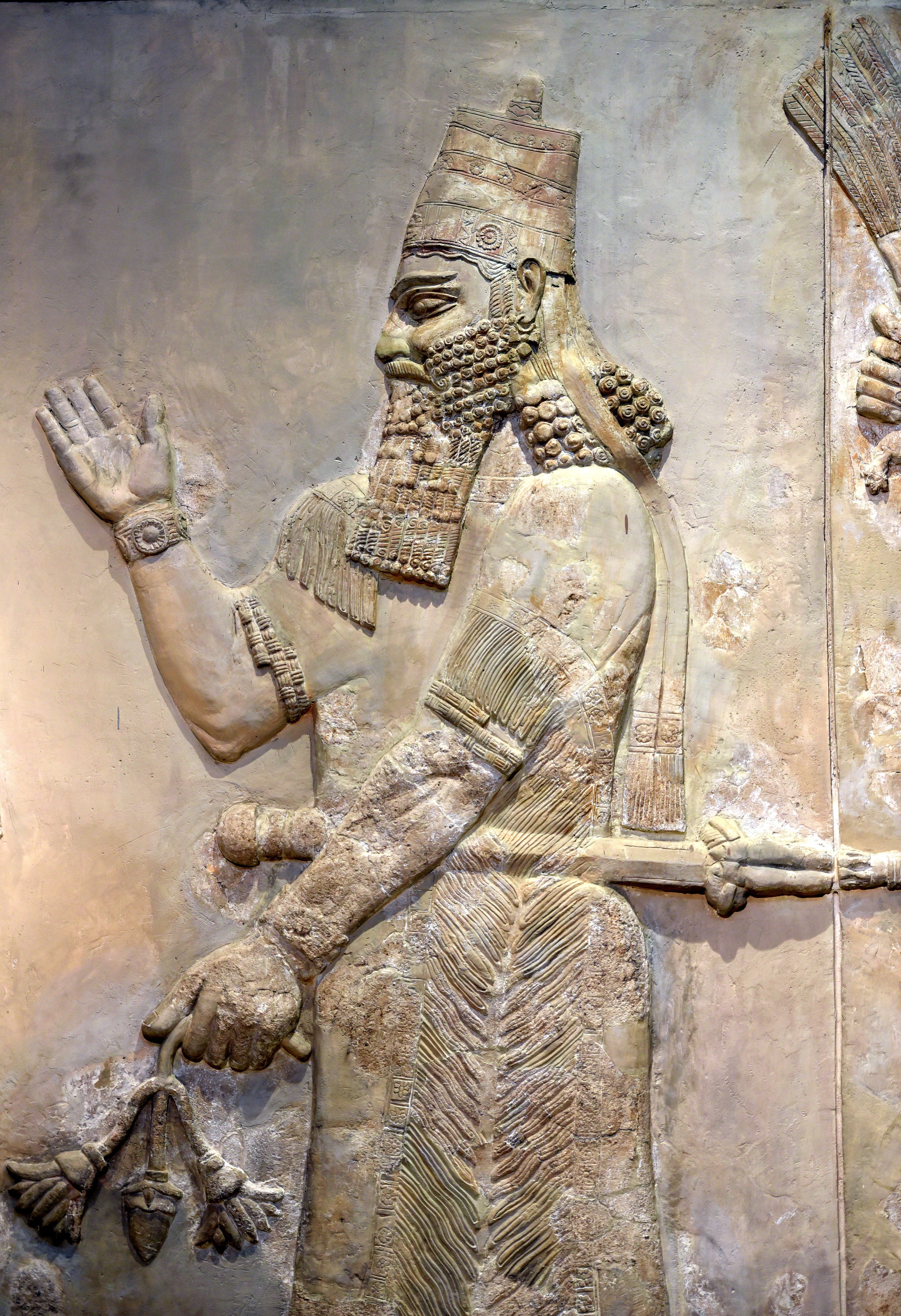 Alabaster bas-relief from the royal palace of Sargon II at Khorsabad, c. 722-705 BCE. Part of along tributary scene depicting tribute bearers from Urartu. The Iraq Museum, Baghdad.